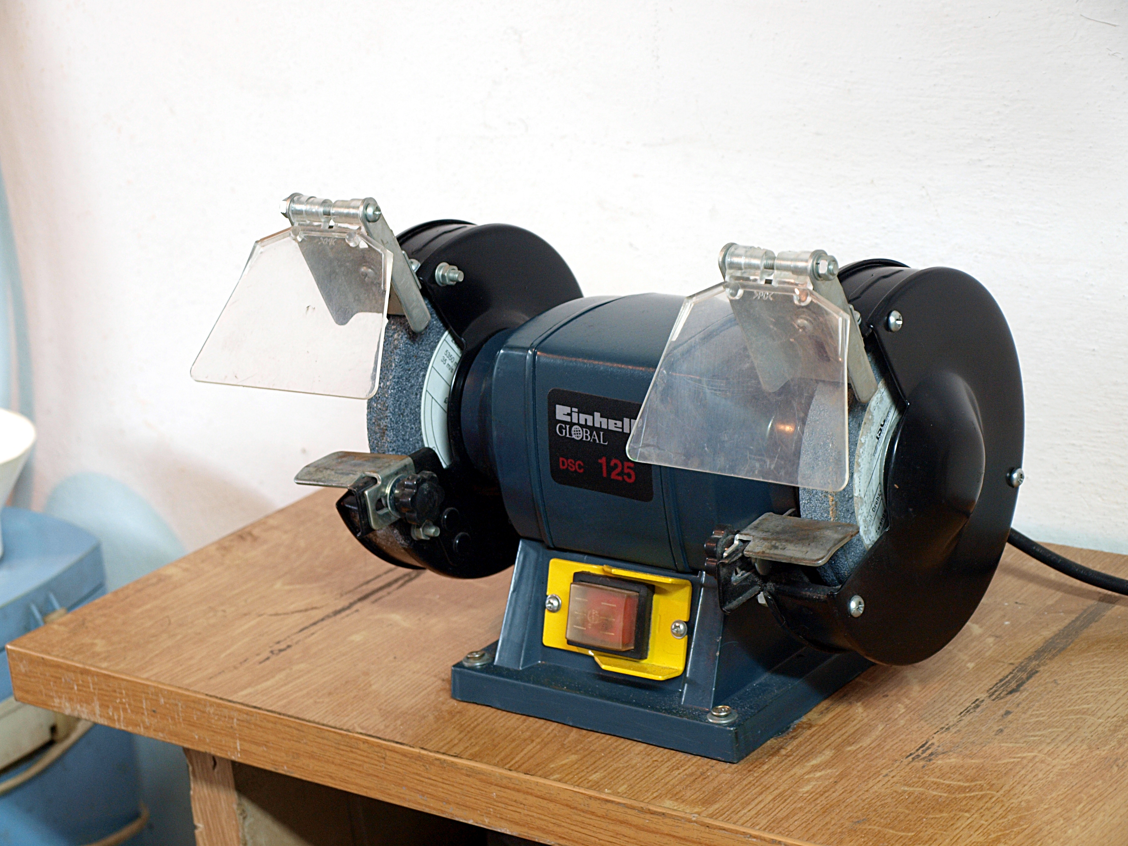 Bench grinder Einhell DSC 125